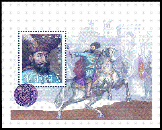 Stamp of Moldova